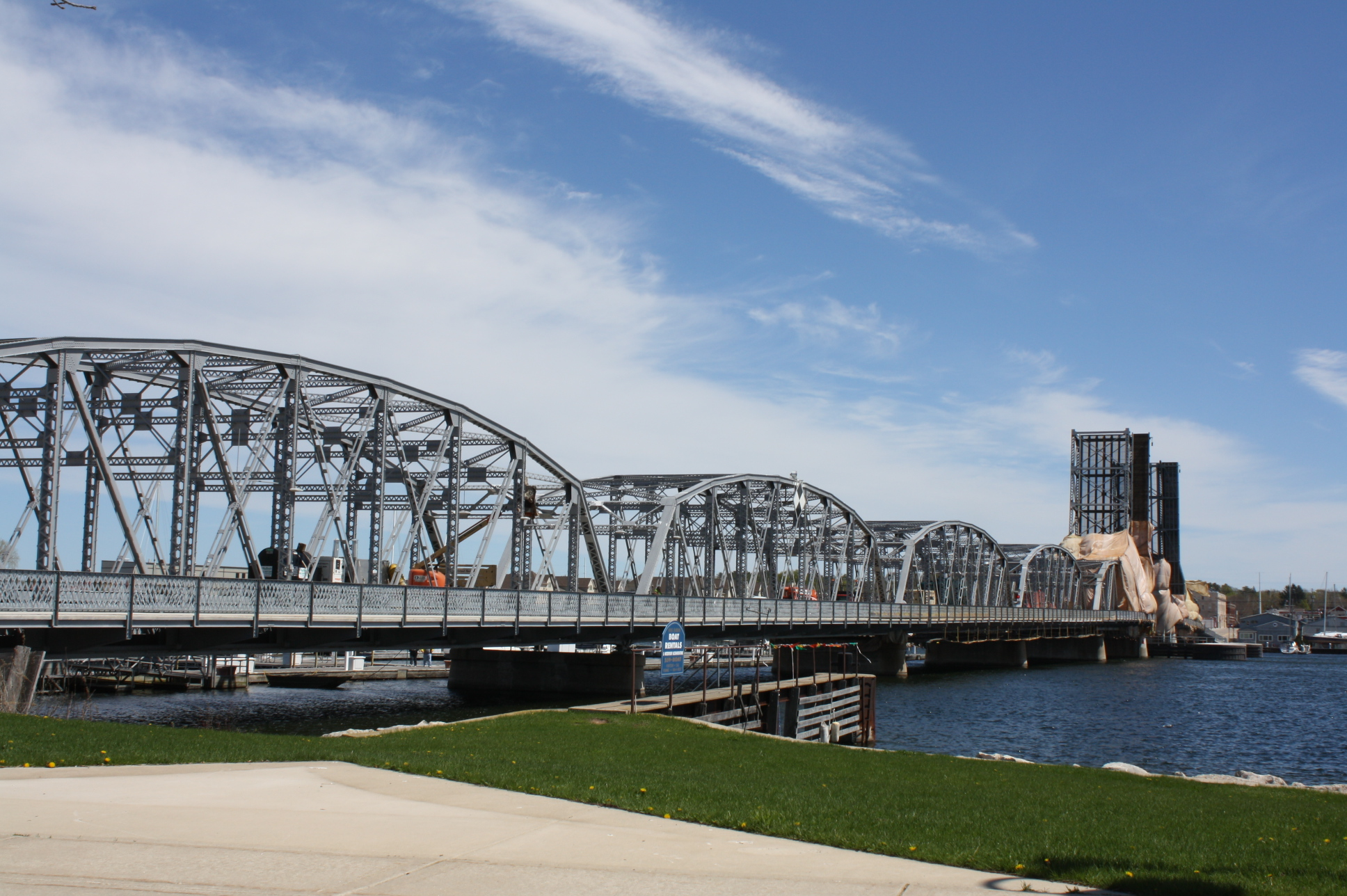 The Sturgeon Bay Bridge during repainting in 2011. It is listed on the National Register of Historic Places. At the far end of the bridge, its double-leaf bascule span is raised.